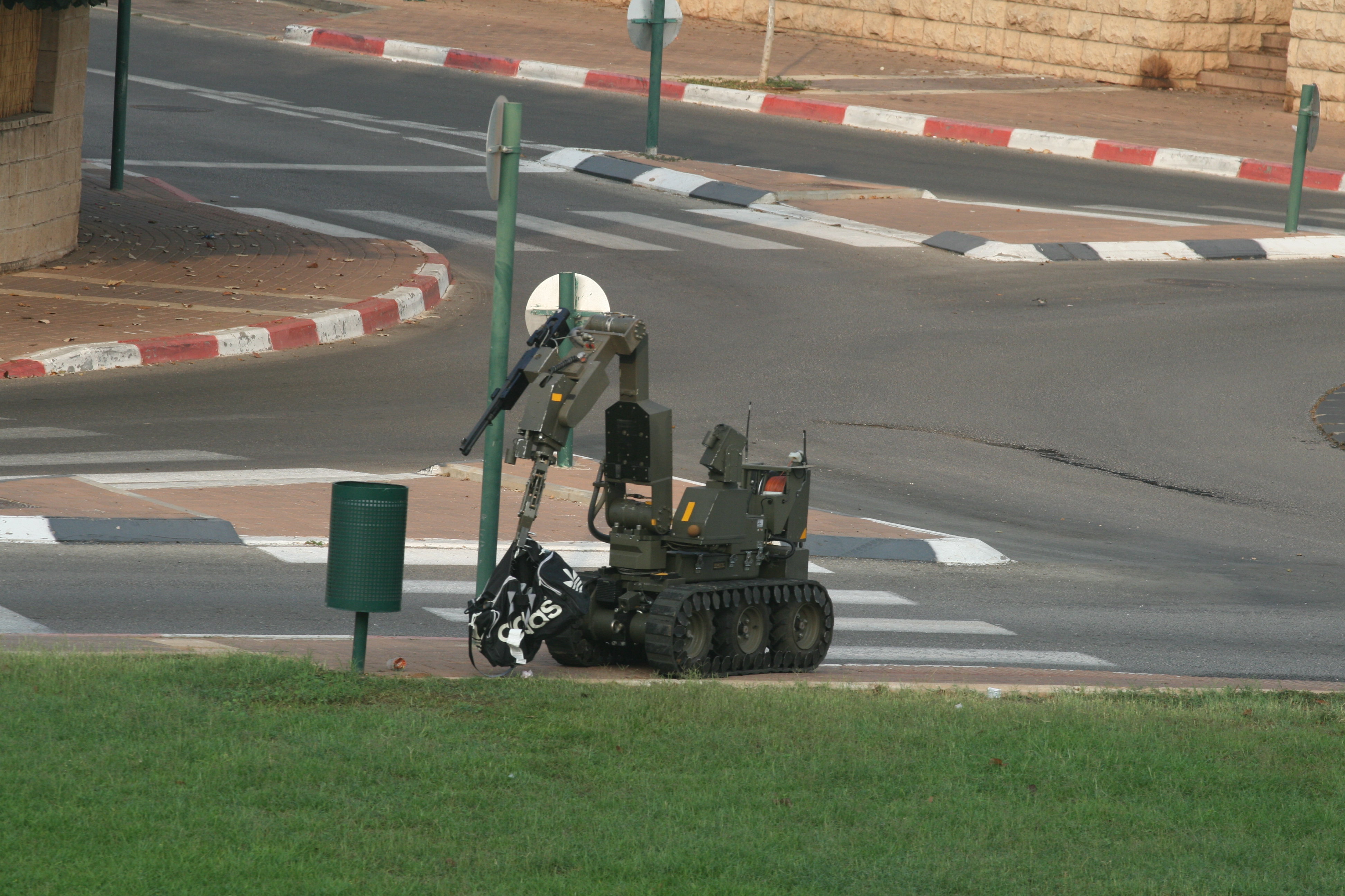 Bomb disposal robot of Israeli Police checking suspicious bag